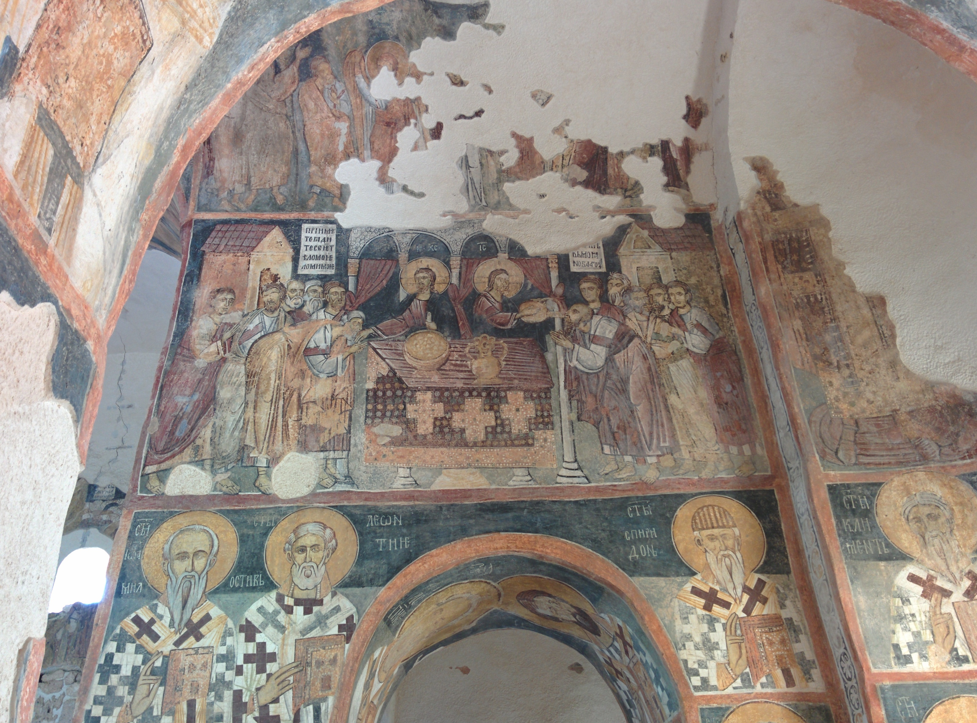 Frescos in Zemen Monastery